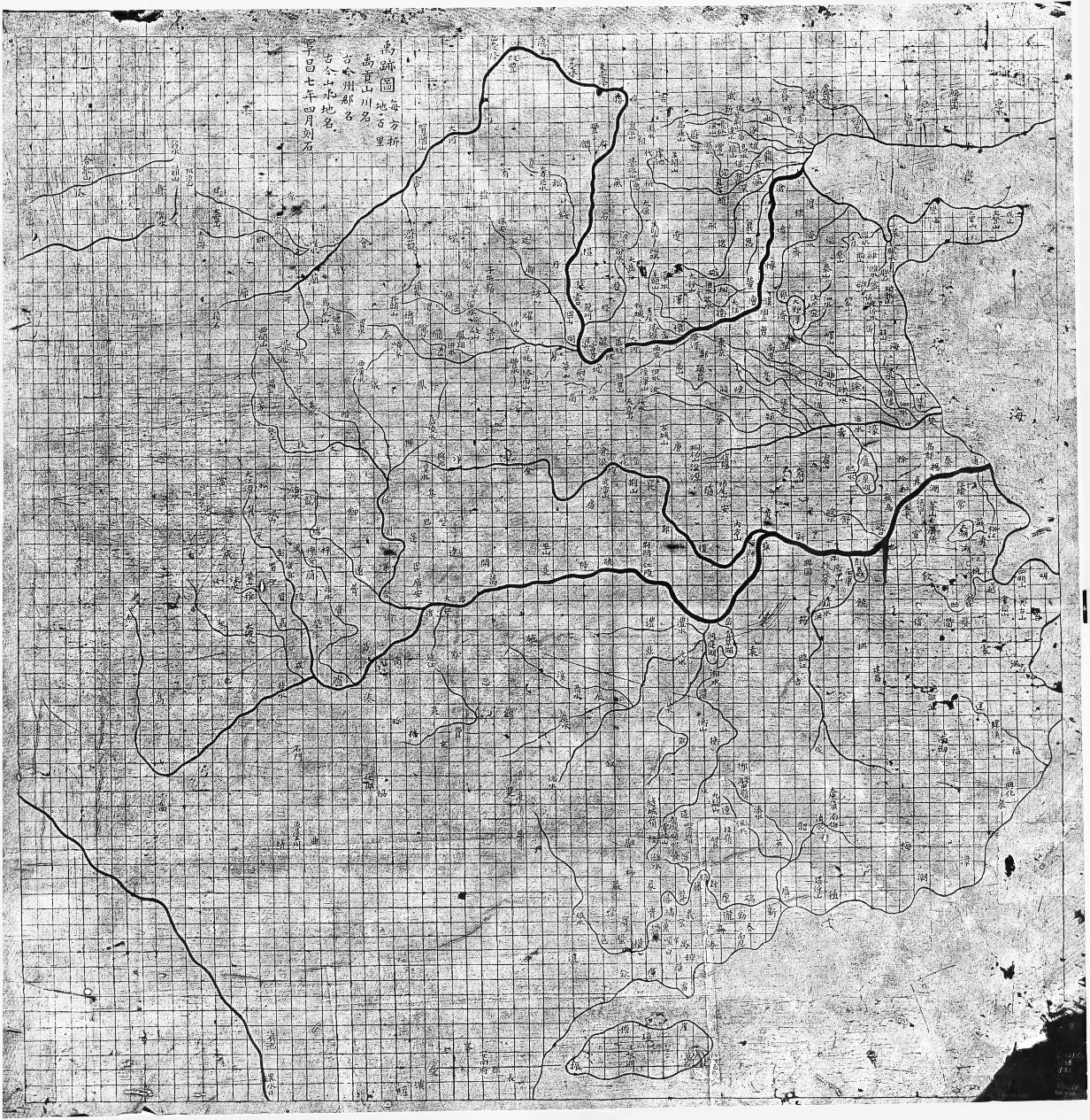 The Yu Ji Tu was carved in stone in AD 1137, depicting the geography of China, particularly the river systems, with considerable accuracy. This image has been negative-inverted by the contributor.